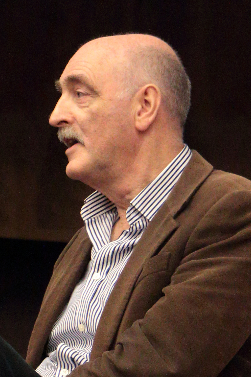 Fred Watson, astronomer, answering a question at the Astronomy Society of Australia Annual Scientific Meeting held at Macquarie University on 22 July 2014.